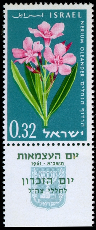 Thirteenth Independence Day stamp - 0.32 Israeli lira - Nerium Oleander. Inscription on tab: "The Thirteenth Independence Day", "Memorial Day for the Fighters for Independence"